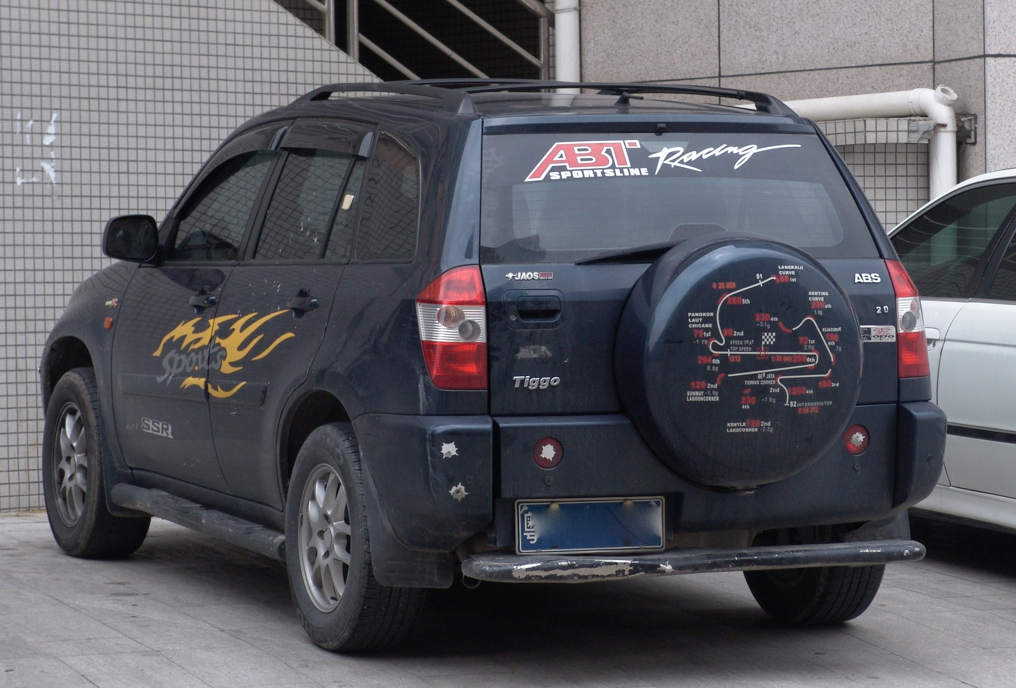 Chery Tiggo, found in China